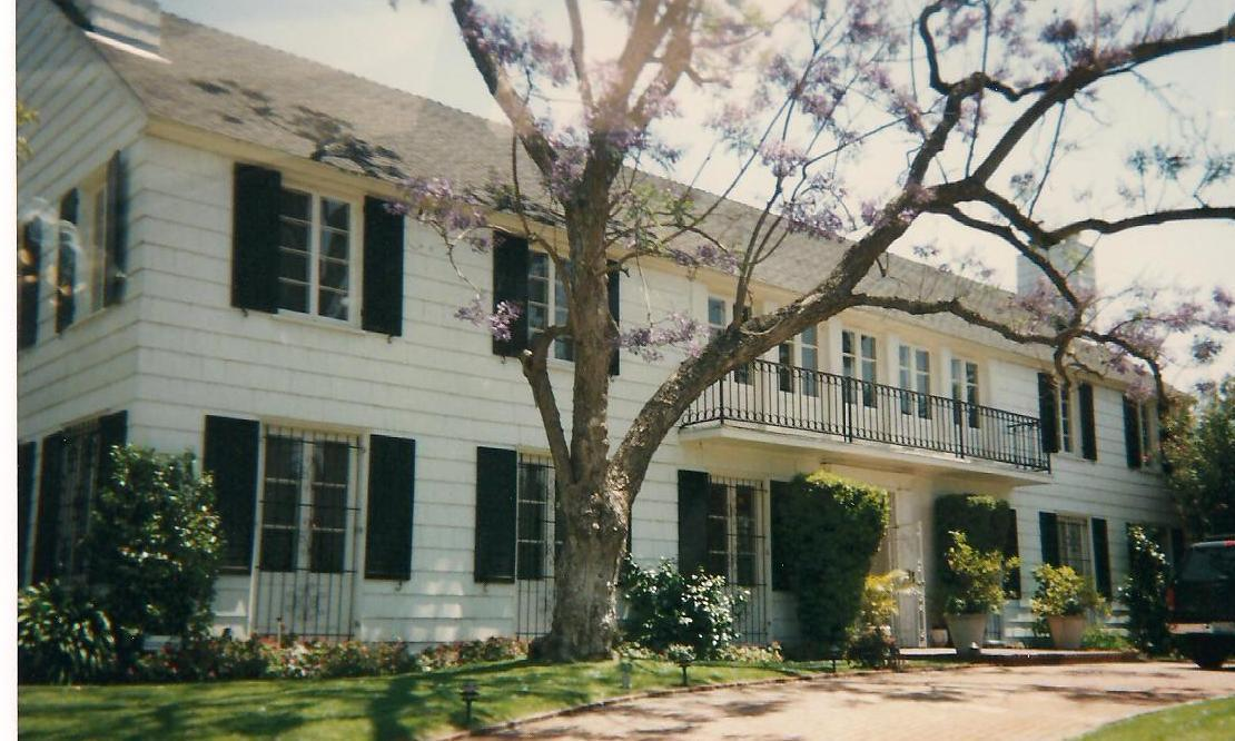 Former home of actress Lana Turner at 730 N. Bedford Drive, Beverly Hills, California. Location of death of Turner's lover, Johnny Stompanato.